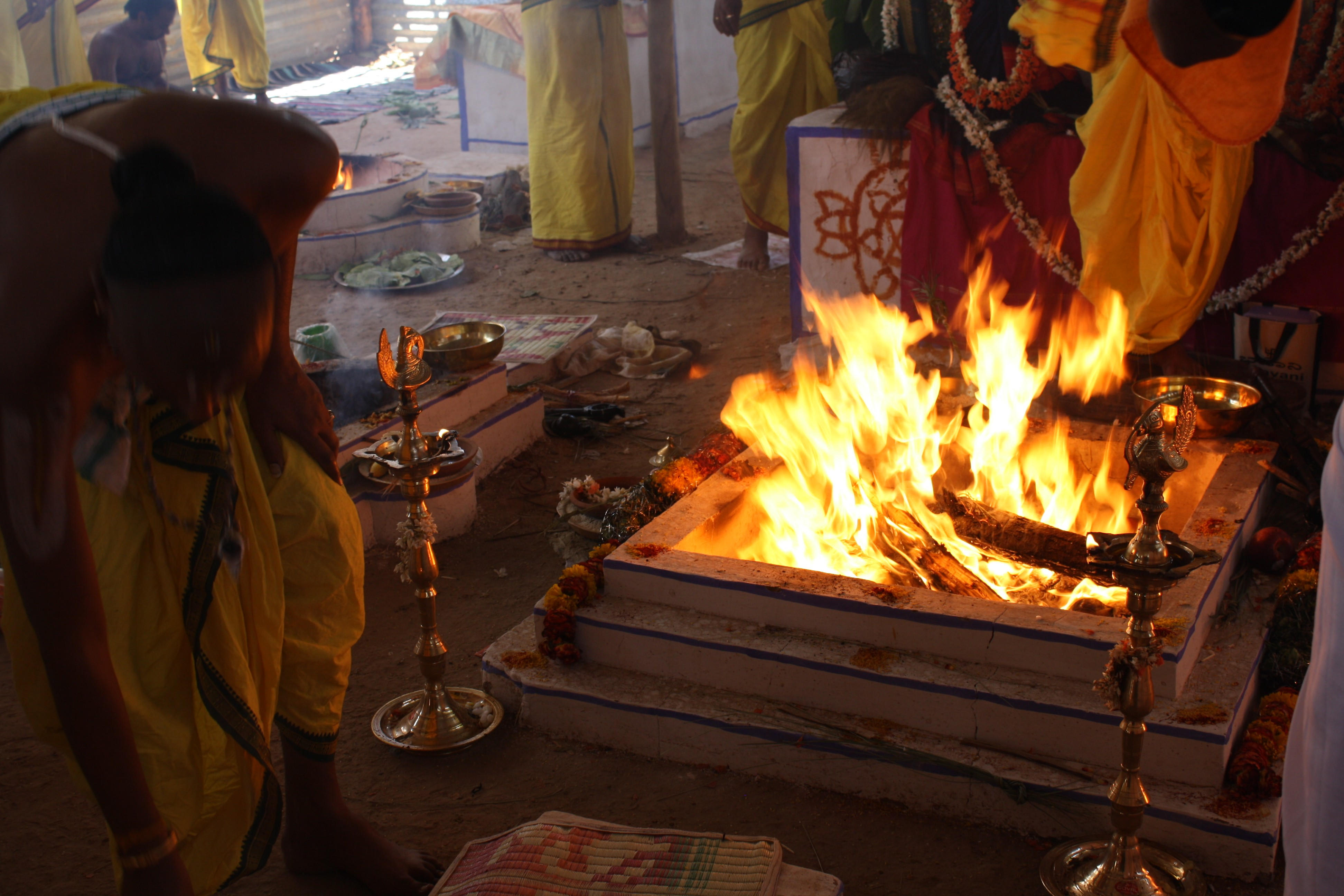 Vishnu Yagna Kunda in Yagashala, as part of Mahakumbhabhishekam of Gunjanarasimhaswamy Temple, T. Narasipur